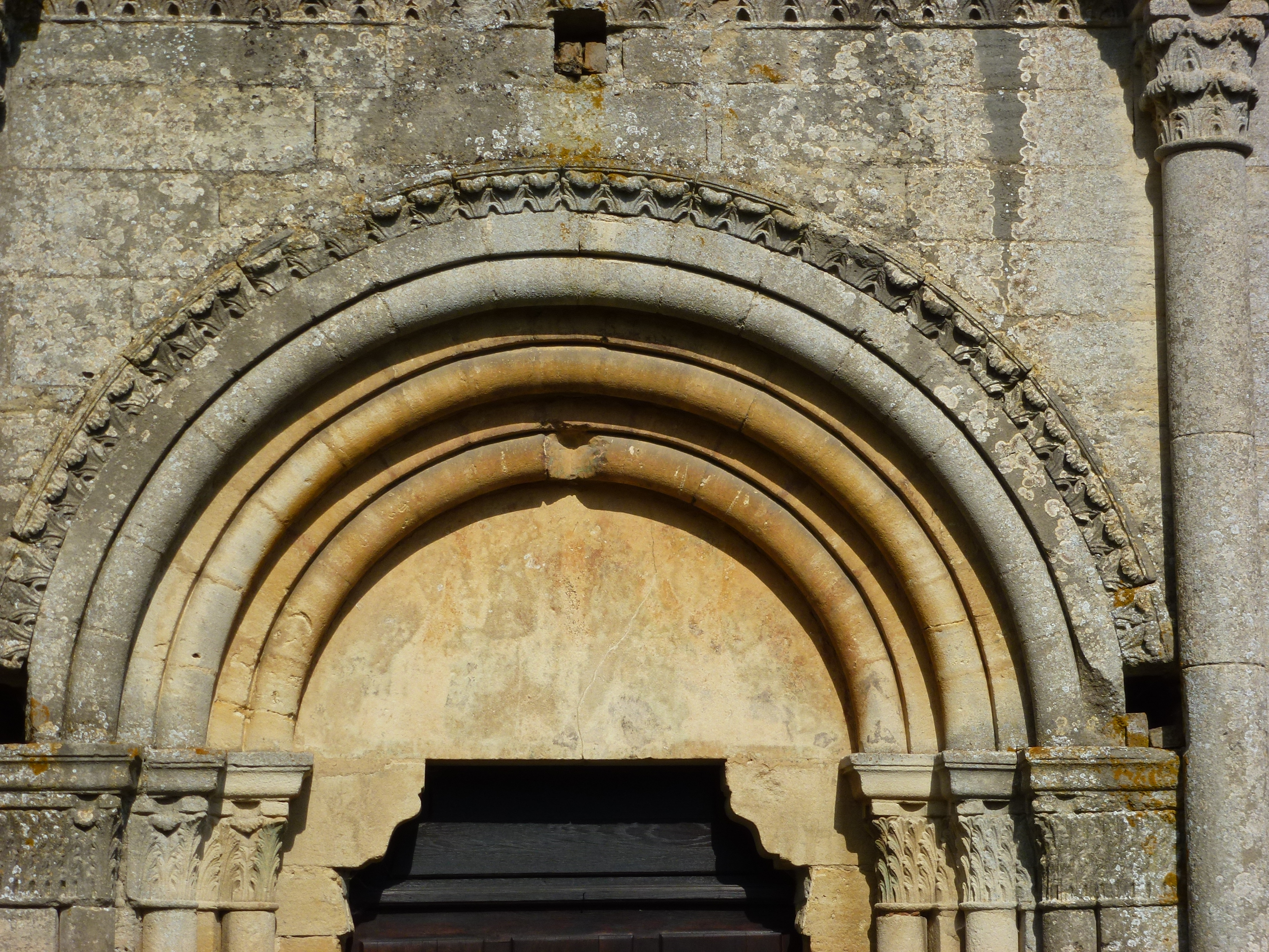 Sorcy-Bauthémont (Ardennes) église Notre-Dame, arc du portail